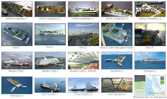 Thumbnails of the many concept vessels proposed by Blueseed for its sea platform.